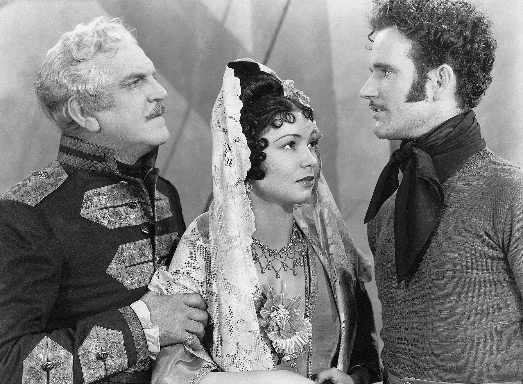 L. to R. : Frank Morgan, Steffi Duna, and Charles Collins in Dancing Pirate - cropped screenshot